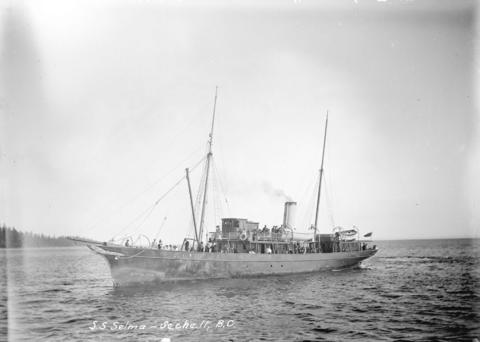 Steamship Selma, built in 1881 as the steam yacht Santa Cecilia, much later purchased by the Union Steamship Company of British Columbia and renamed Chasina.